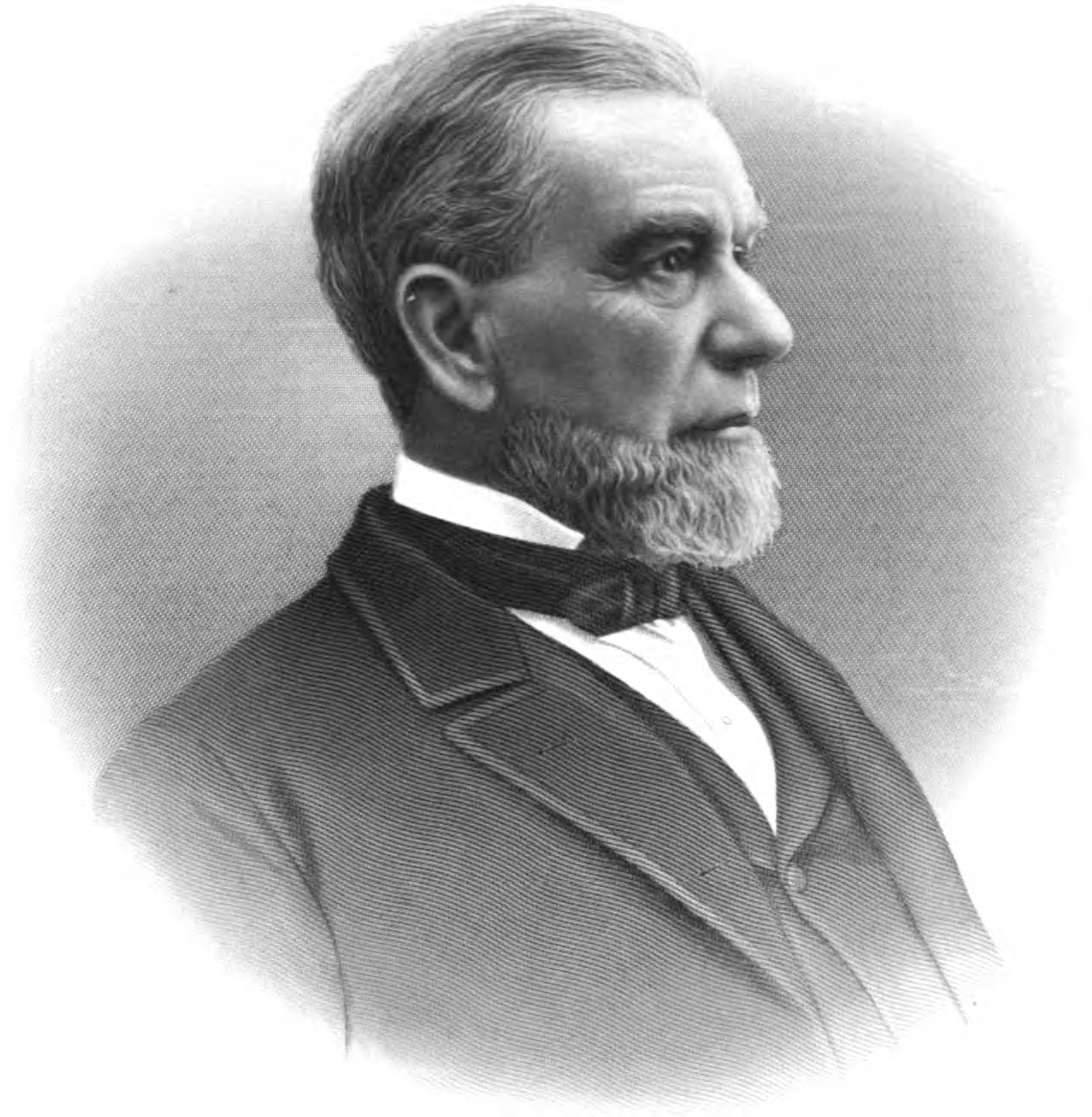 Ohio politician Richard A. Harrison